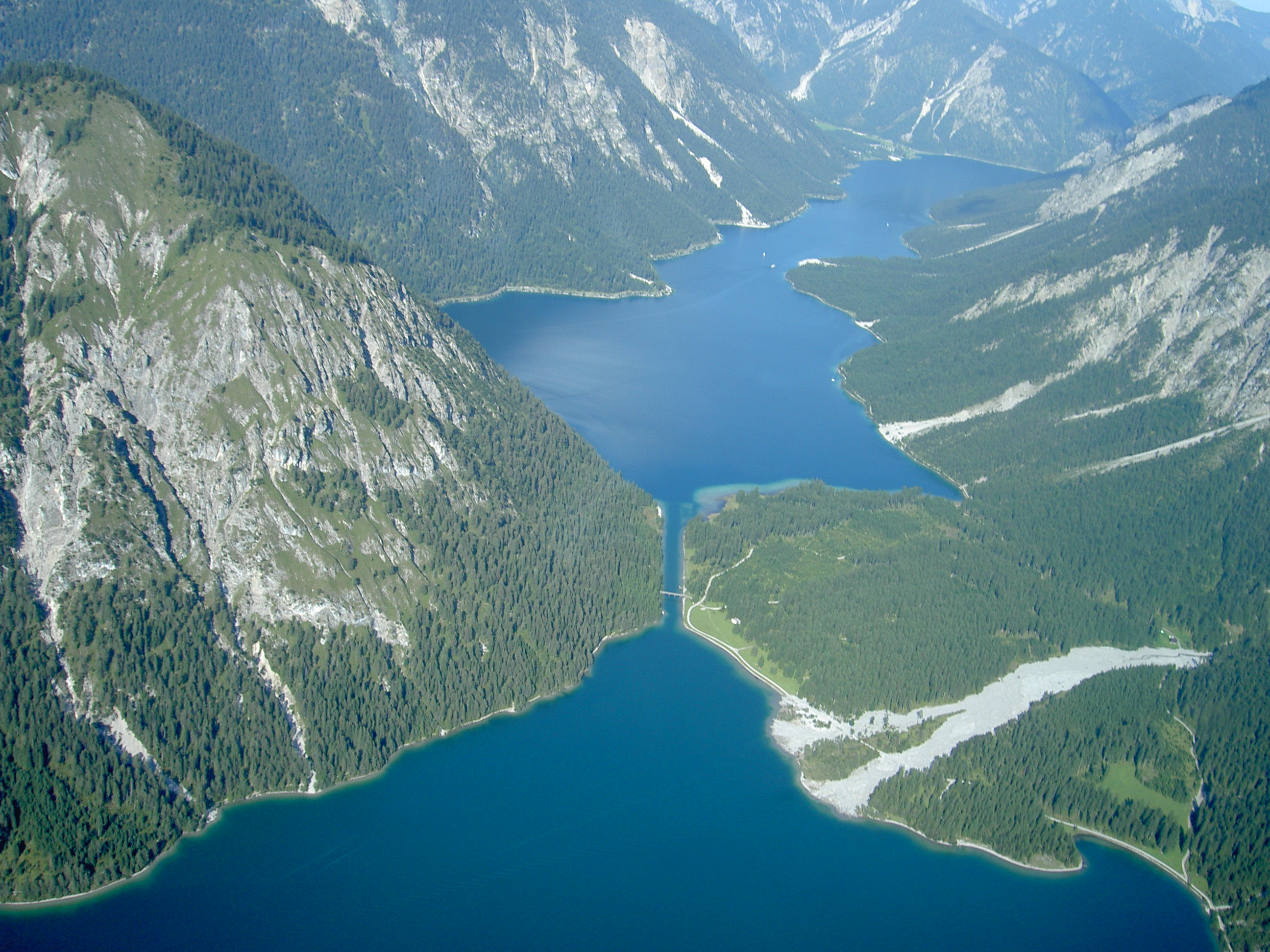 Heiterwanger See (in front) and Plansee from SW, picture taken from plane